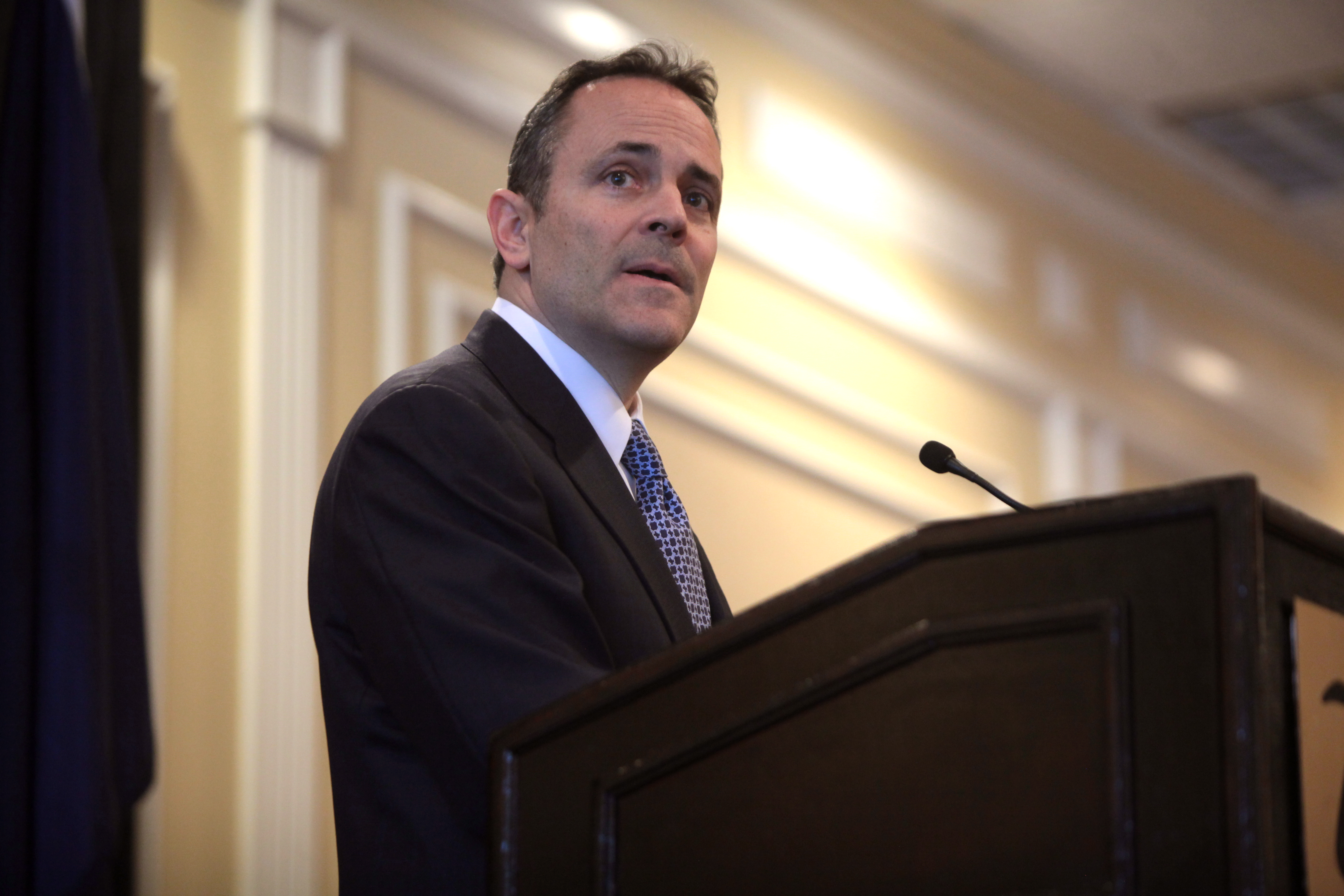 Governor Matt Bevin speaking with attendees at the 2016 First in the Nation Town Hall hosted by the New Hampshire Republican Party in Nashua, New Hampshire.